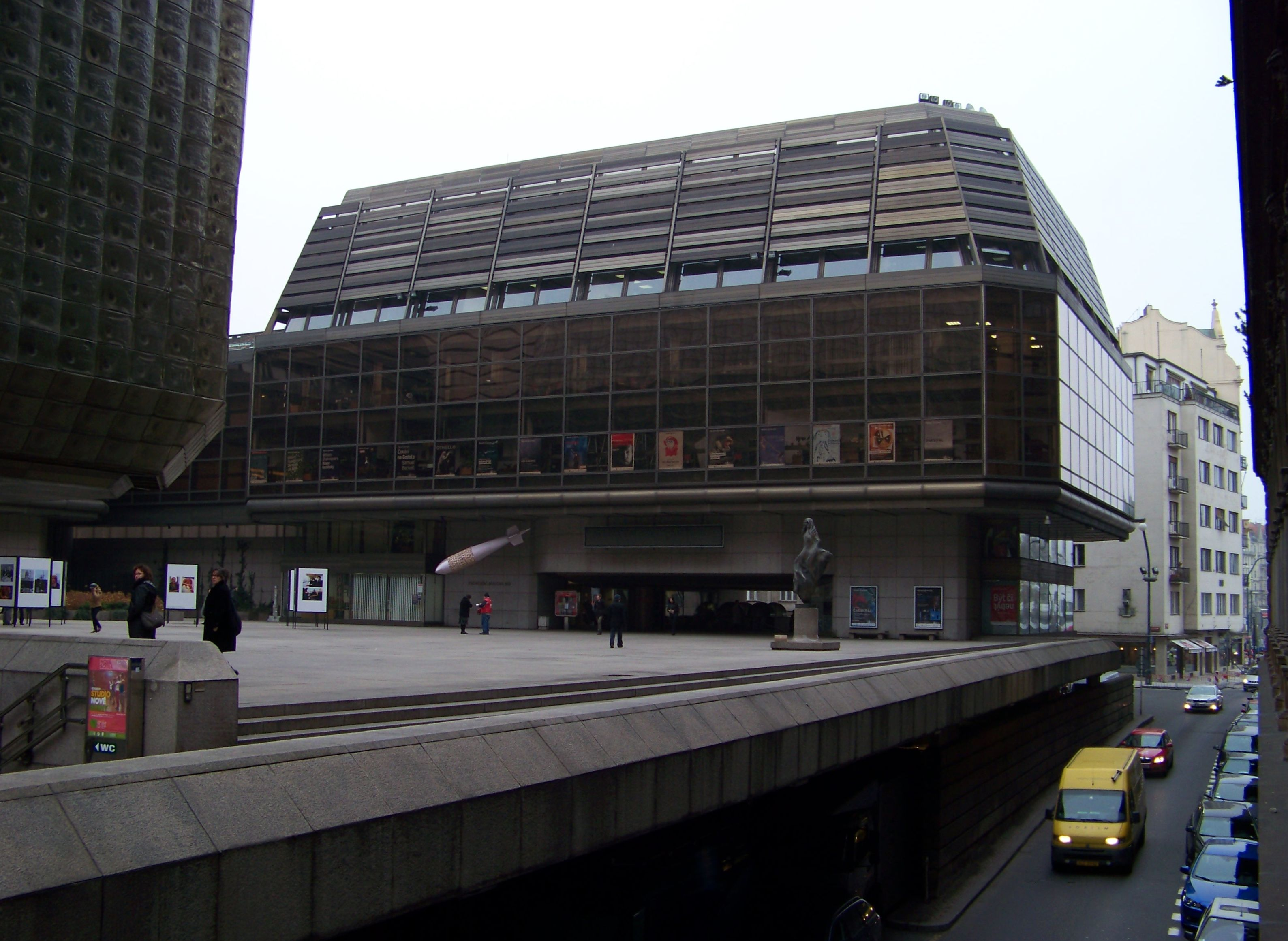 Prague-New Town, the Czech Republic. New buildings of National Theatre.